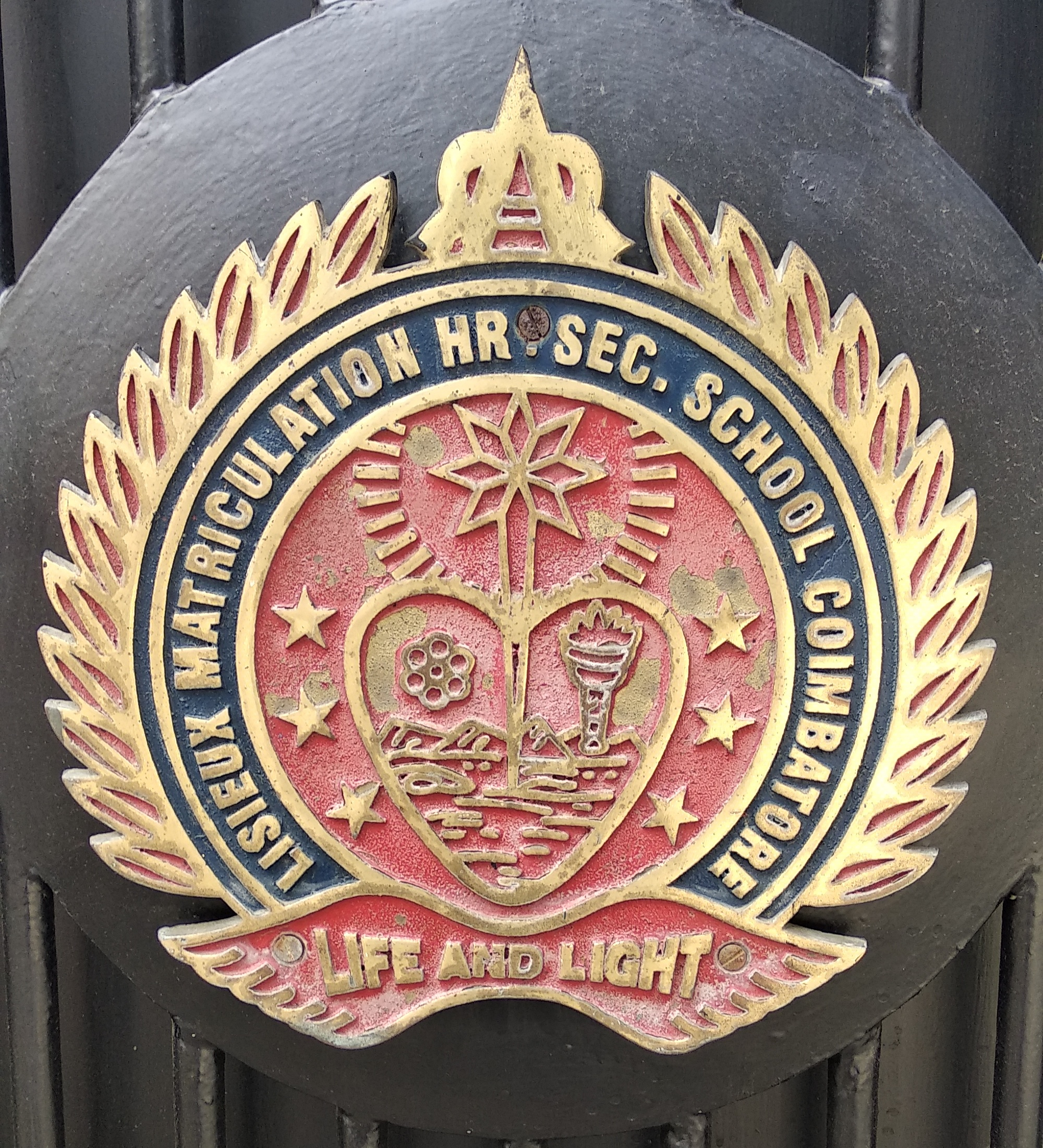 Logo of Lisieux at the main gate